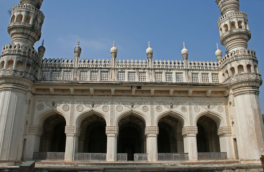 Beautiful Mosque adjacent to Tomb of Hayath Bakshi Begum in Hyderabad, India.